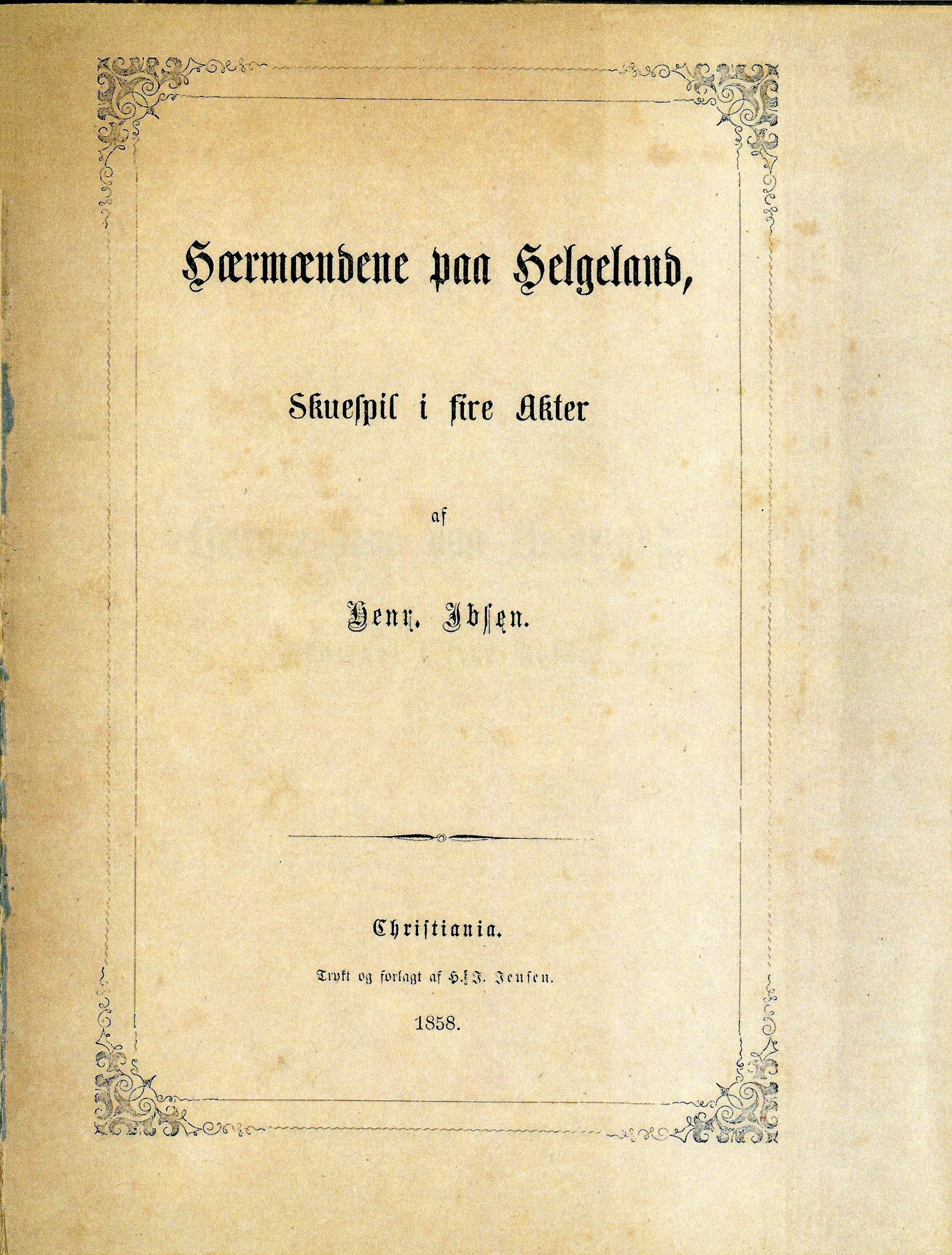 The First Norwegian edition of The Vikings at Helgeland